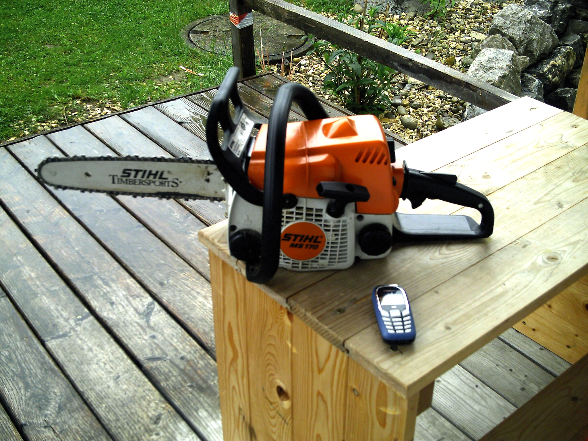 Chainsaw